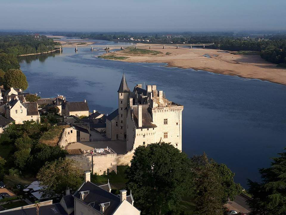 Chateau de Montsoreau Museum of contemporary art Loire Valley Unesco World heritage France